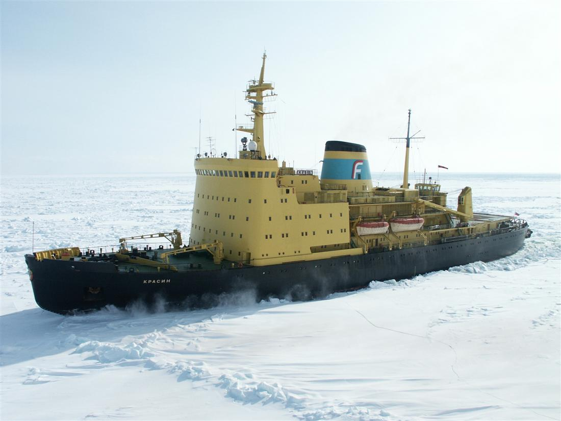 Krasin on its way to McMurdo Information about Красин may be found at IMO 7359644.A ship can change name and flag state through time, but the IMO number remains the same through the hull's entire lifetime. As a result, it can be useful to identify a ship by using the IMO number.